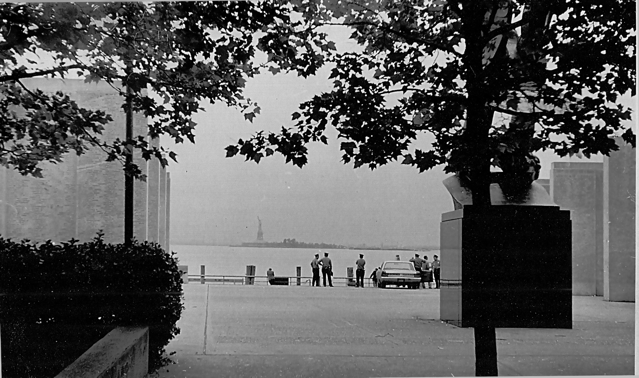 Navy Memorial. In the Honour of mariners died during WWII.